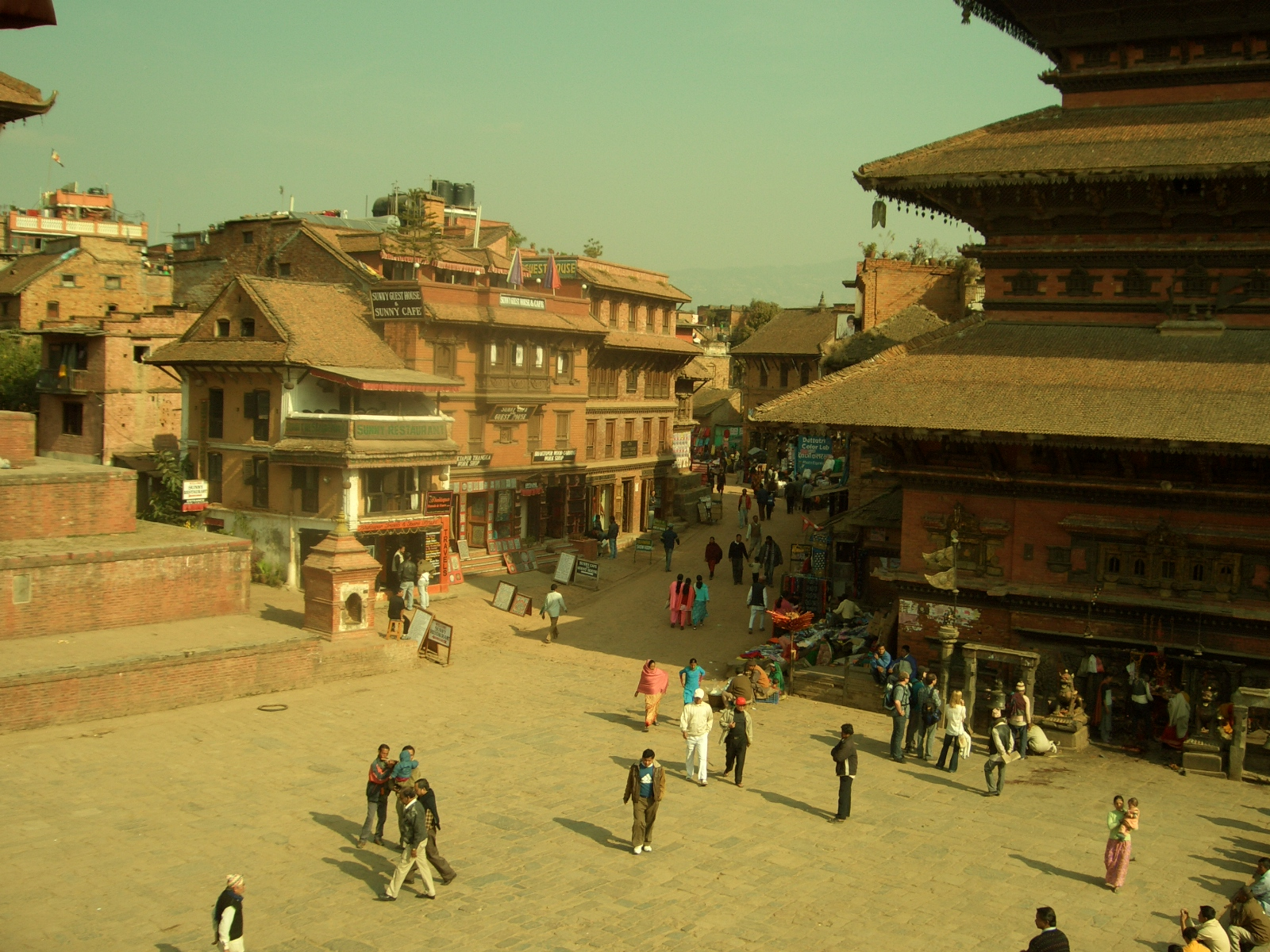 Photo: Soman